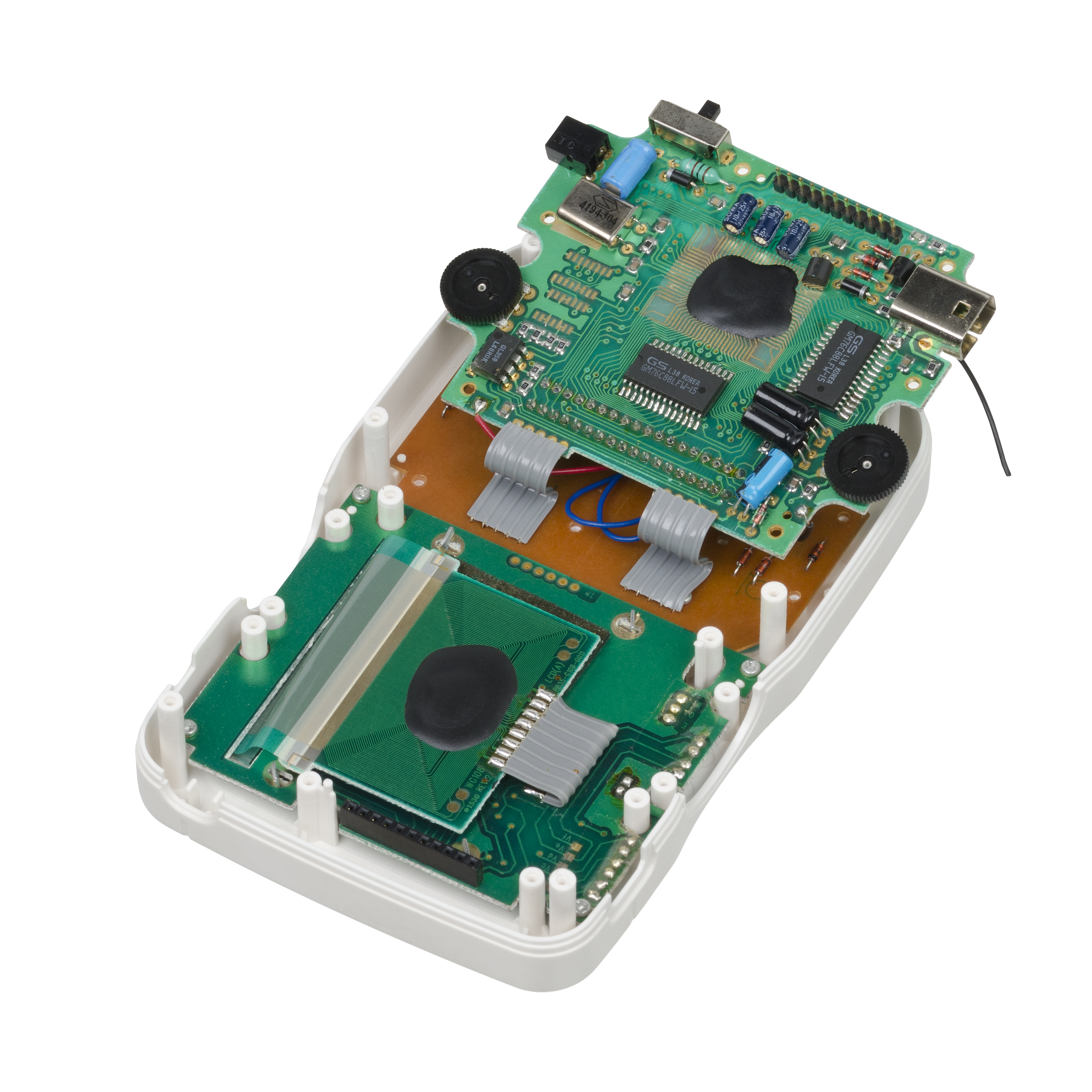 The inside of the Mega Duck, a handheld video game console similar to the Nintendo Game Boy that was released worldwide under a variety of branding/names starting in 1993.